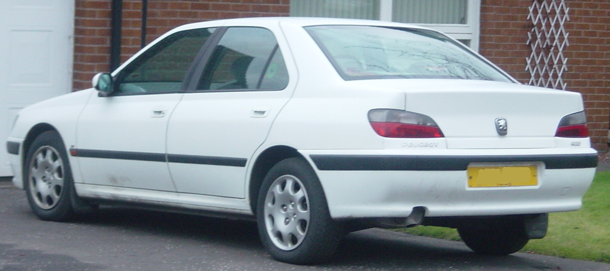 created by Mazurka